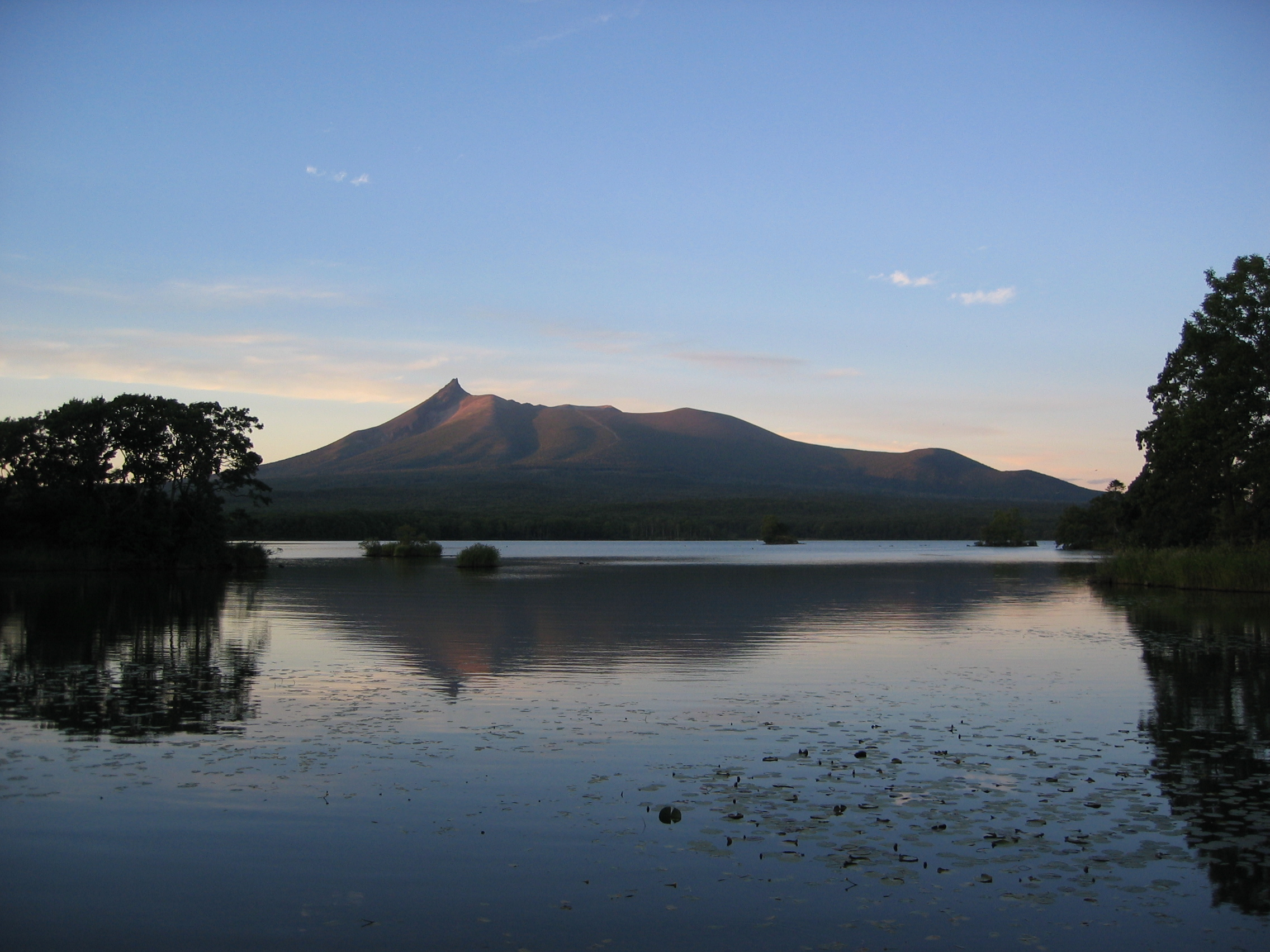 Mt. Komagatake, in Onuma Quasi National Park, near Hakodate, Hokkaido, Japan. Shot over the lake around dusk.